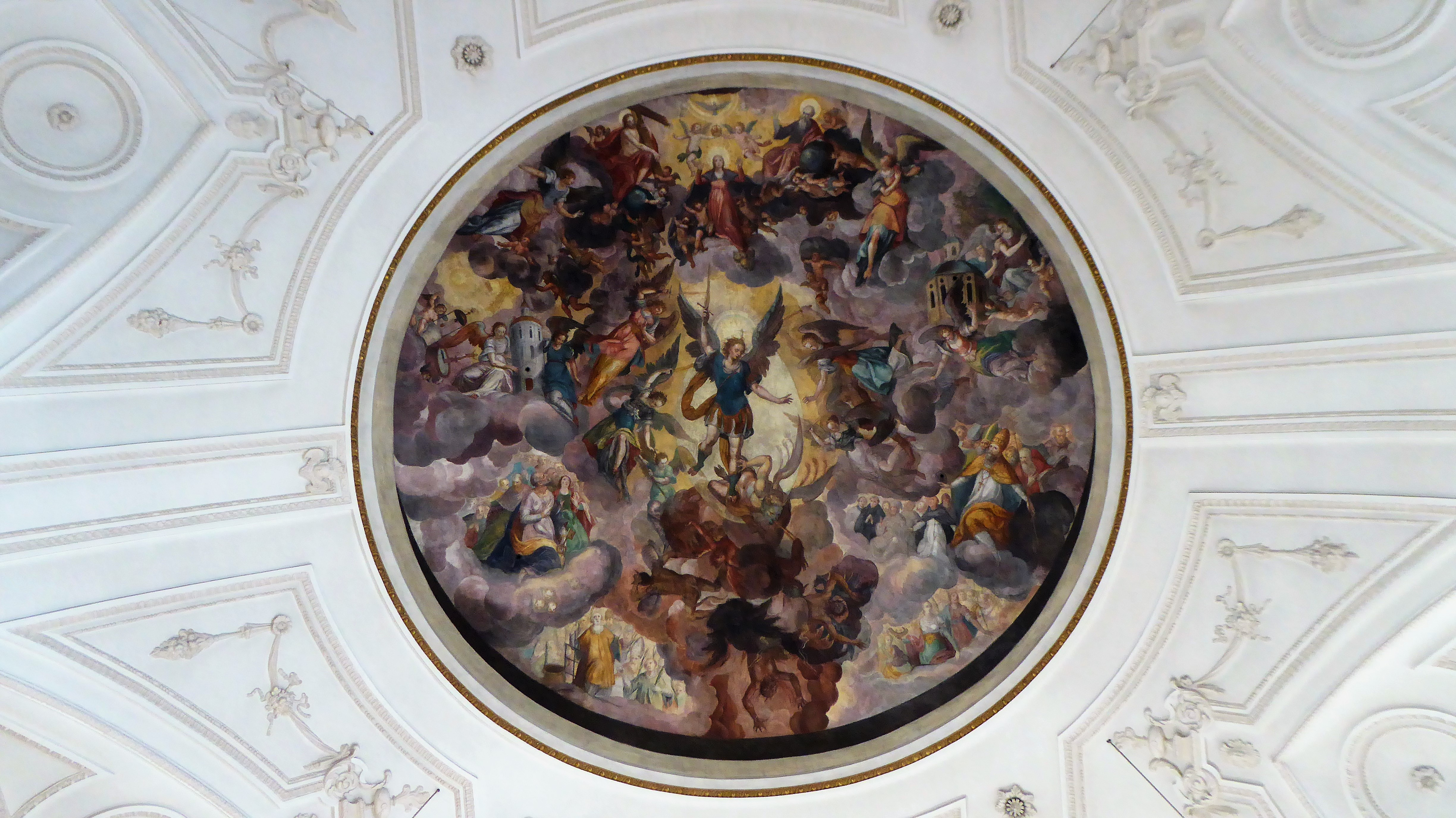 Ceiling fresco in Weilheim´s central church depicting Lucifer´s descent to hell achived by Archangel Micheael